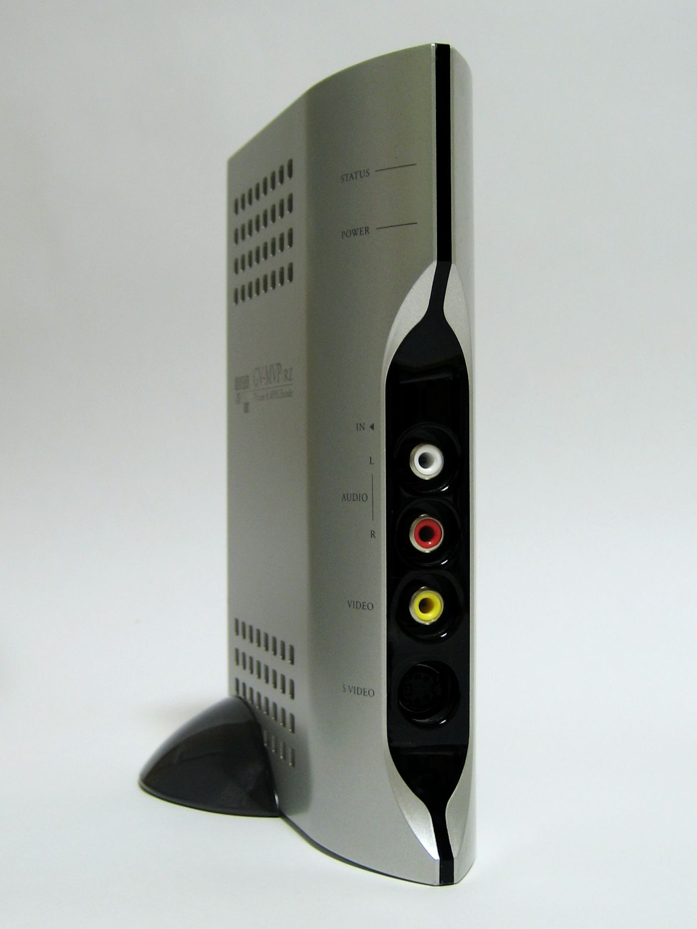 I-O Data GV-MVP/RZ.